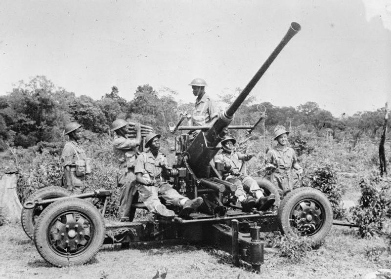 The British Army in Burma 1944 Askaris of the 11th East African Division at a battle training centre in Ceylon receiving instruction on the 40mm Bofors anti-aircraft gun, 1944.